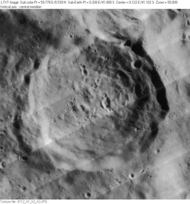 Nasireddin lunar crater - LO-IV-112H image